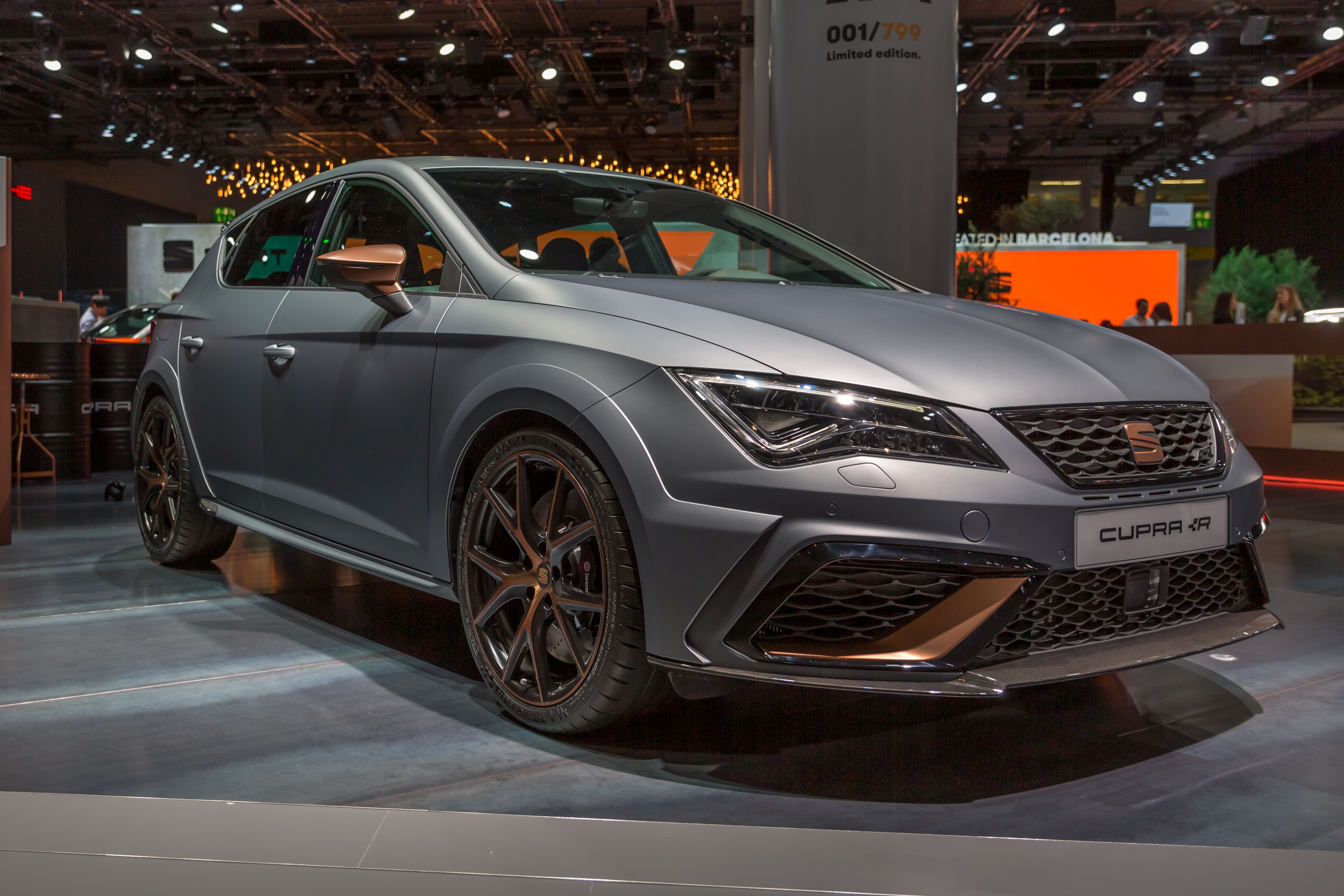 Seat Leon Cupra R